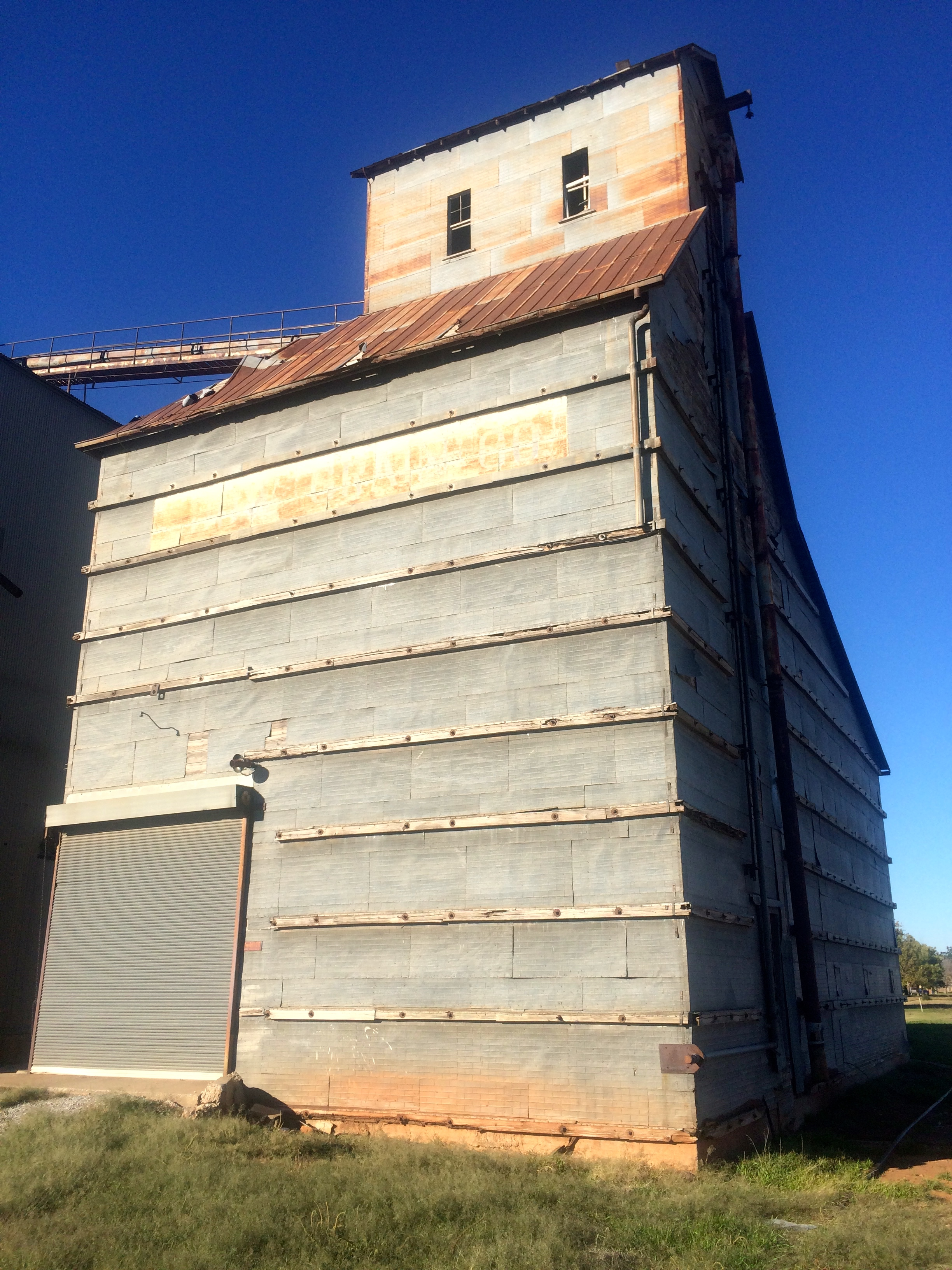 Dow Grain Company Elevator, 105 E. Oklahoma St. Okarche